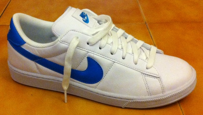 Nike Classics shoe